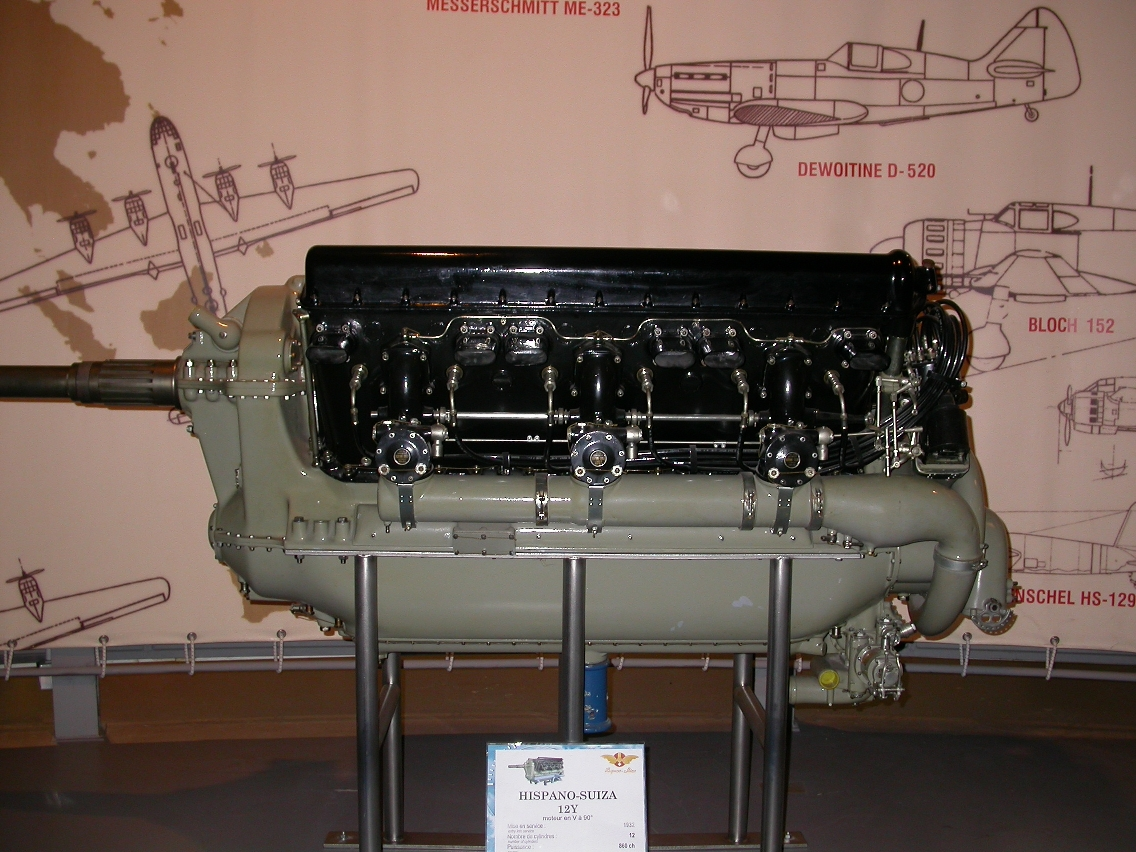 Hispano Suiza 12Y-31. Restauration by volunteers of the Musee SAFRAN Villaroche, Fr